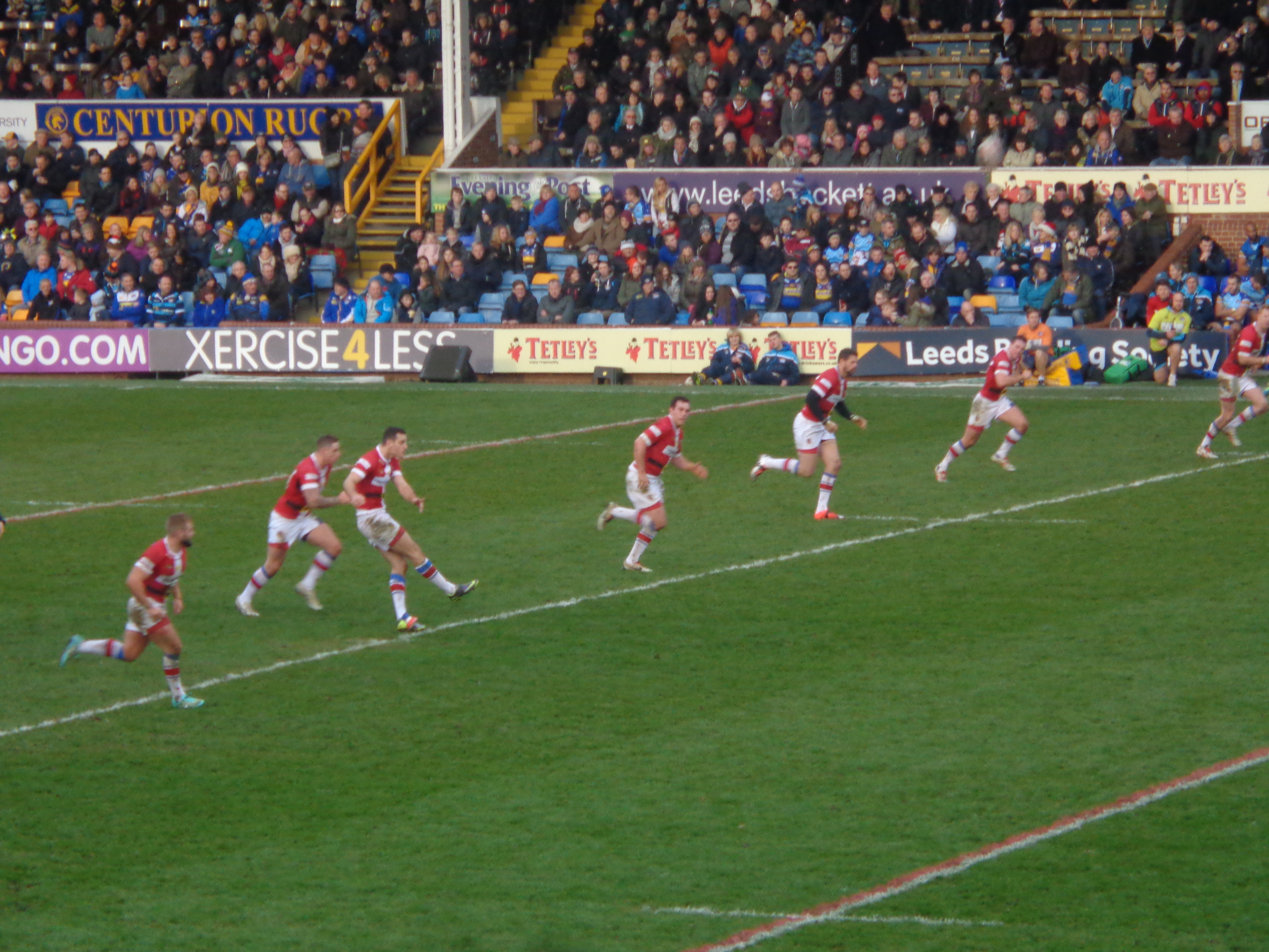 The 2014 Tetley's Festive Challenge is the 2014 leg of a traditional rugby league encounter played between Leeds Rhinos and Wakefield Trinity Wildcats which kicked off at 11:30 am on Boxing Day at Headingley Stadium. Taken during the second half of the game which was won by the hosts on the afternoon of Friday the 26th of December 2014.